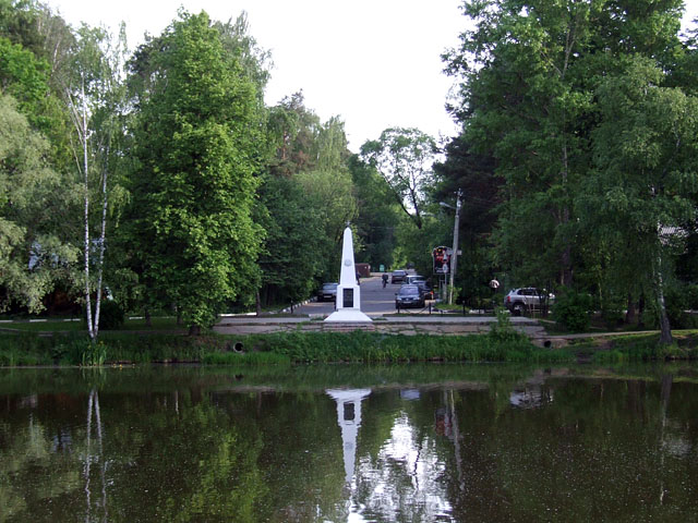 Nemchinovka